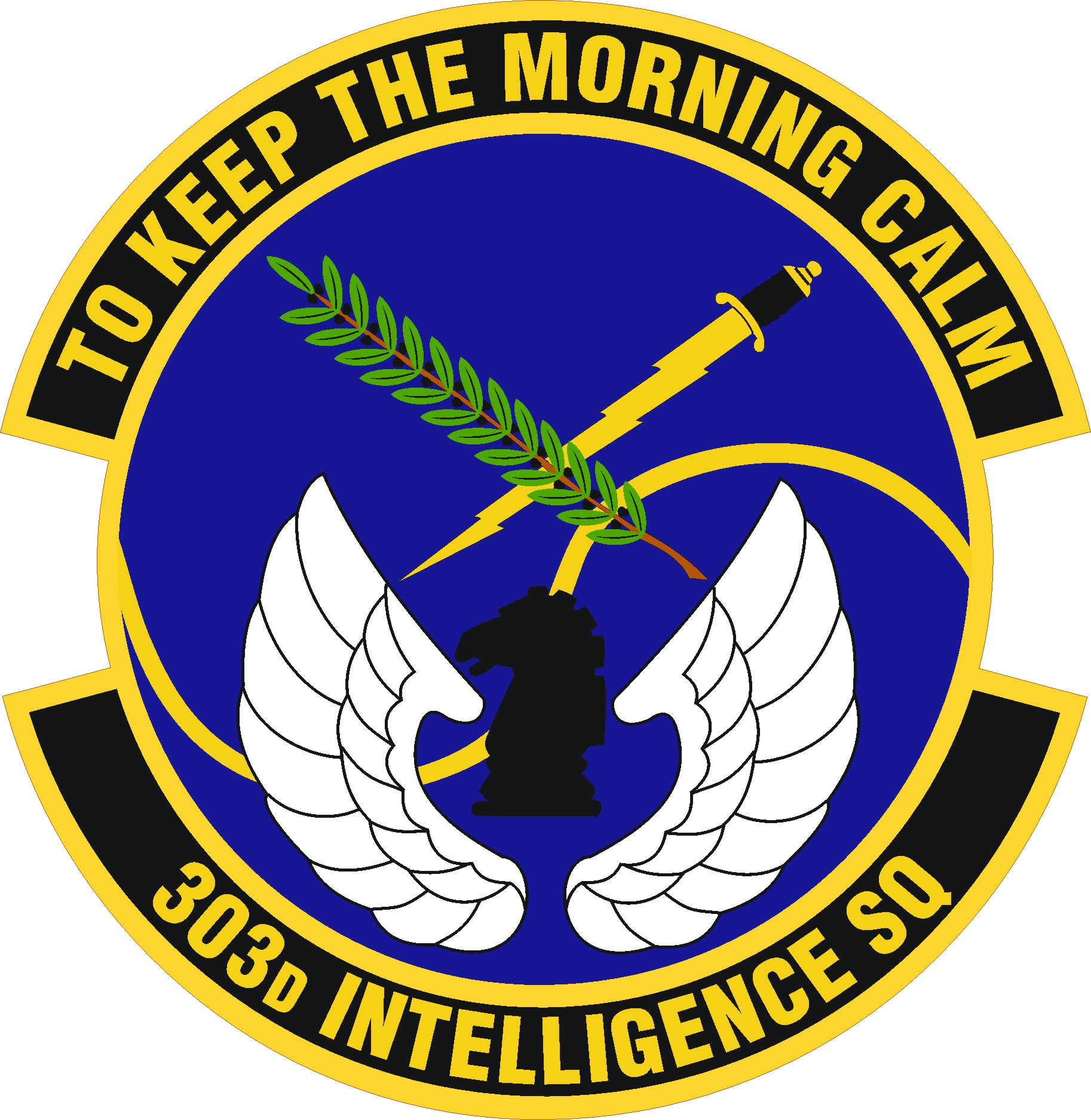 303d Intelligence Squadron emblem